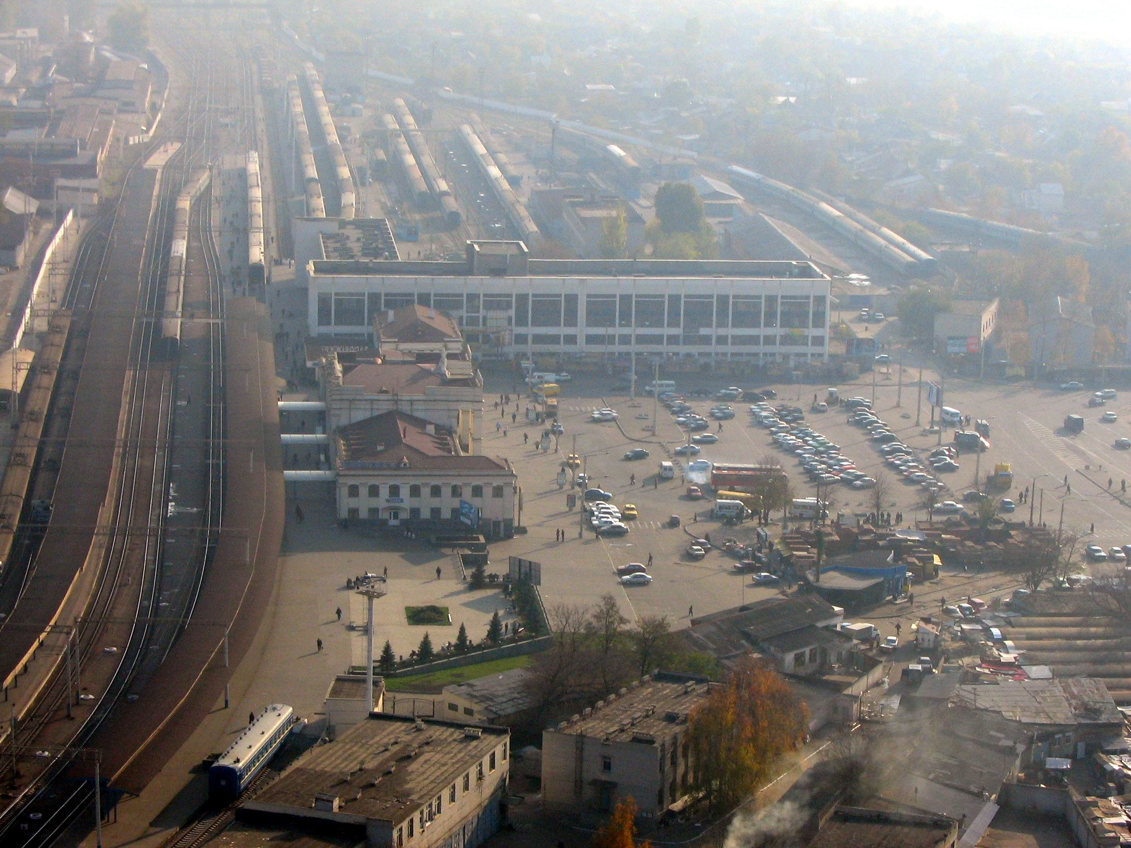 Zaporizhia